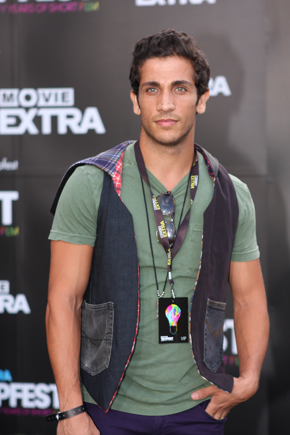 Tropfest Opens In Sydney, Australia